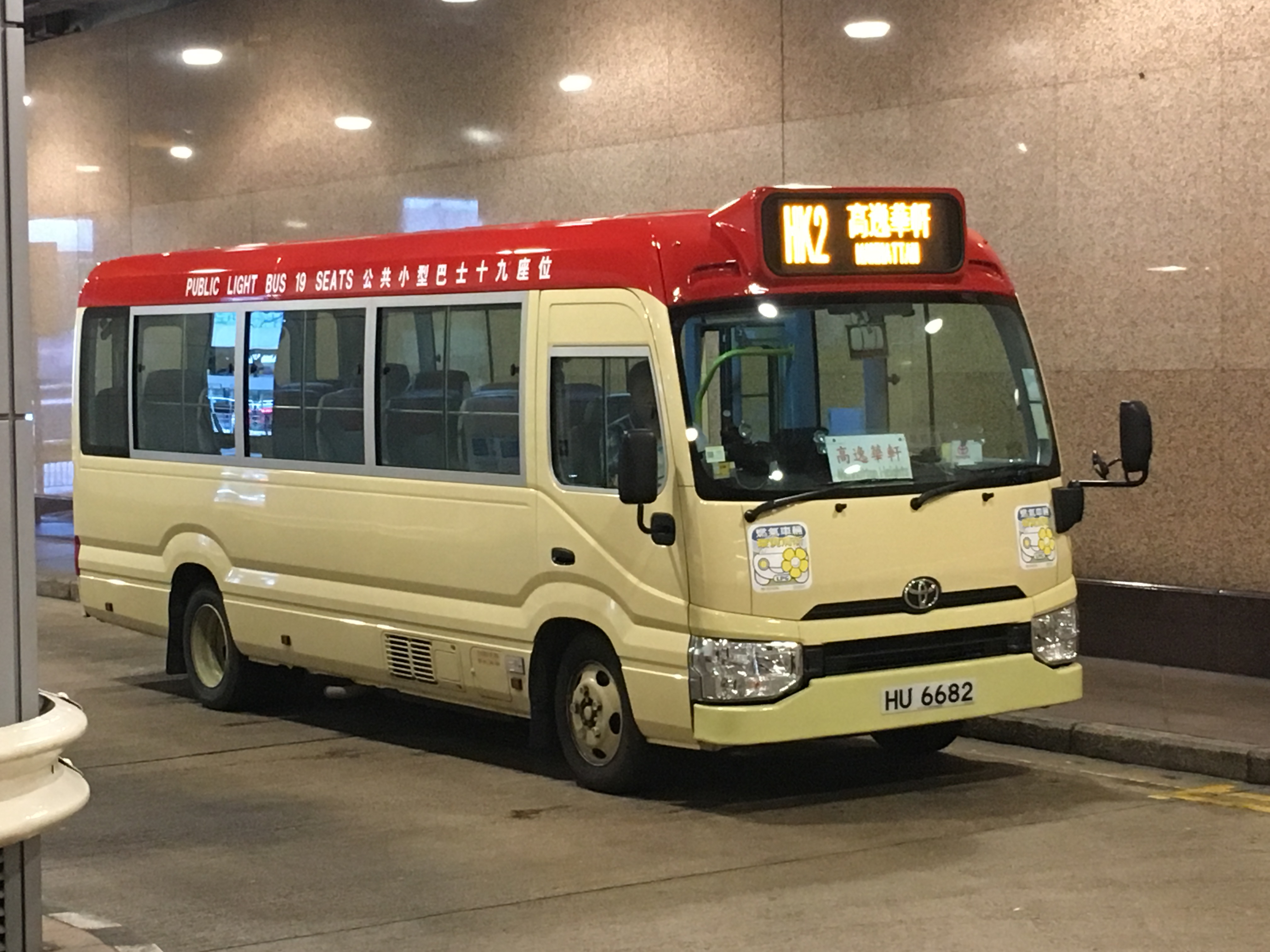 中文（香港）: This photo is taken in Central.